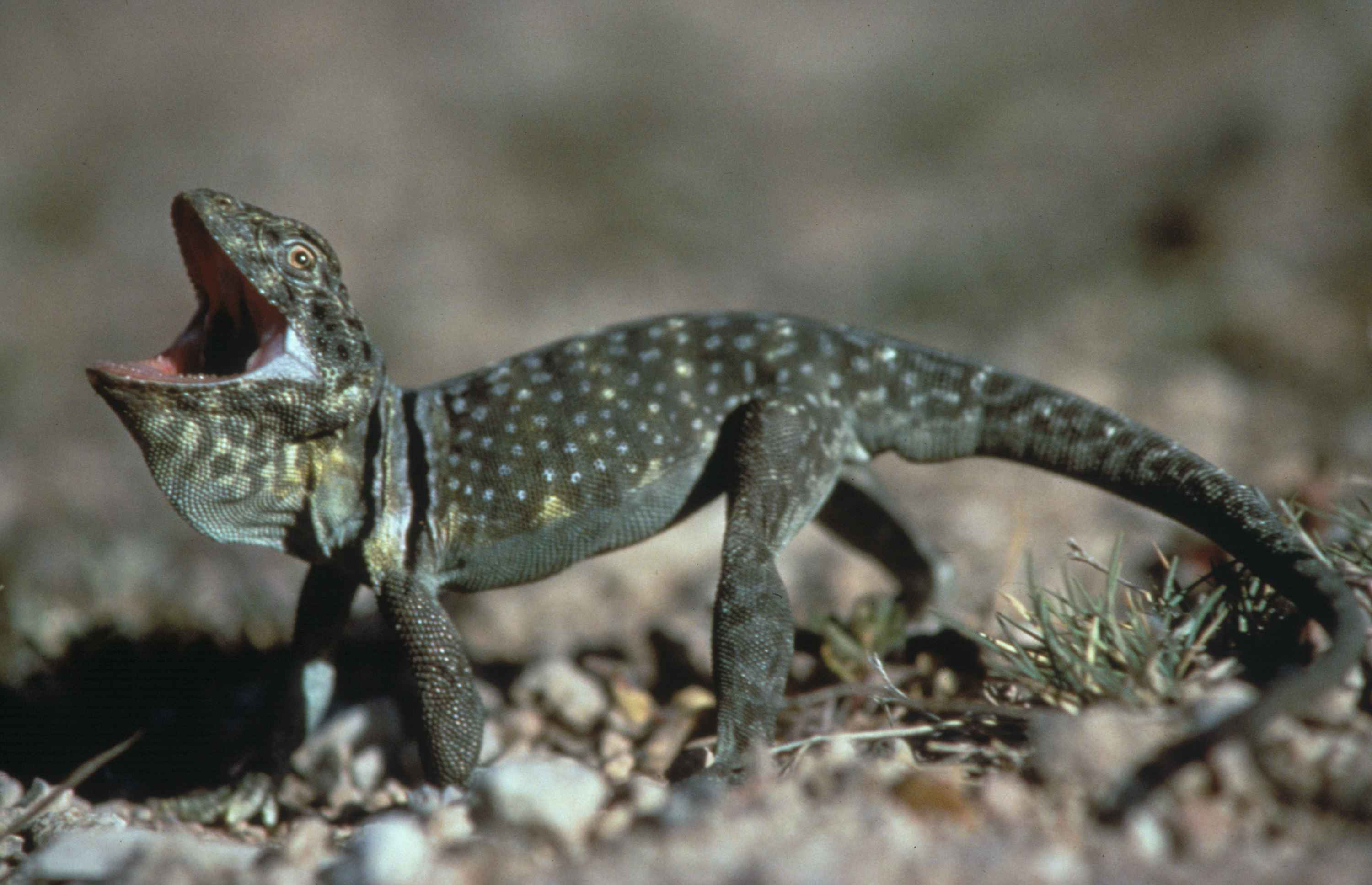 Image title: Collard lizard crotaphytus collaris Image from Public domain images website